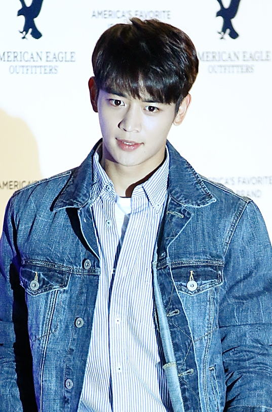 Minho at American Eagle Outfitters launching event on October 6, 2015.